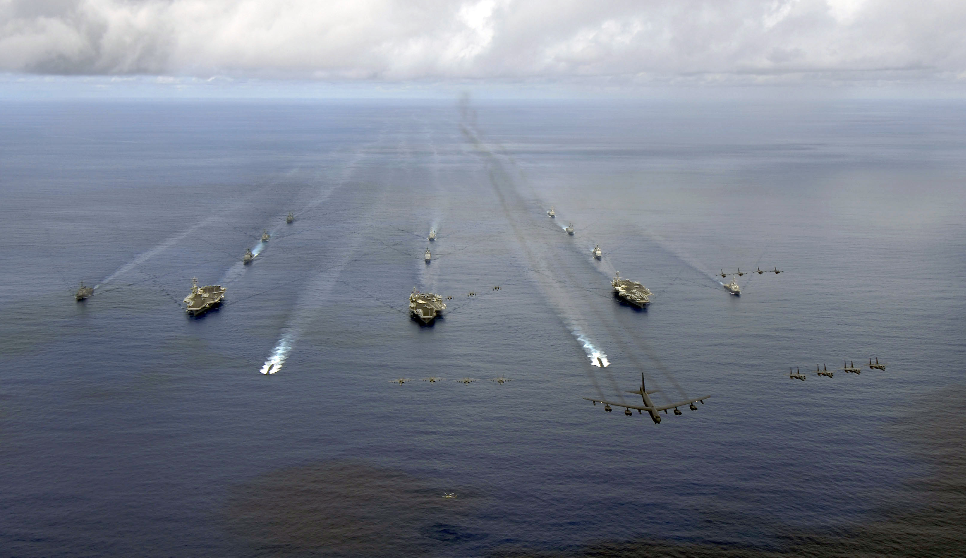 PACIFIC OCEAN (Aug.14, 2007) - USS Nimitz (CVN-68), USS Kitty Hawk (CV-63), and USS John C. Stennis (CVN-74) Carrier Strike Groups transit in formation during a joint photo exercise (PHOTOEX) during exercise Valiant Shield 2007. The aerial formation consists of aircraft from the carrier strike groups as well as Air Force aircraft. The strike groups are participating in Valiant Shield 2007, the largest joint exercise in the Pacific this year. Held in the Guam operating area, the exercise includes 30 ships, more than 280 aircraft and more than 20,000 service members from the Navy, Air Force, Marine Corps, and Coast Guard.